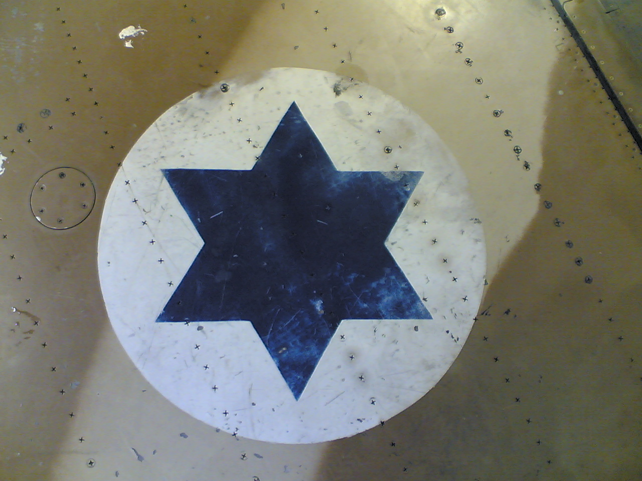 IAF Roundel painted on F-16A wing